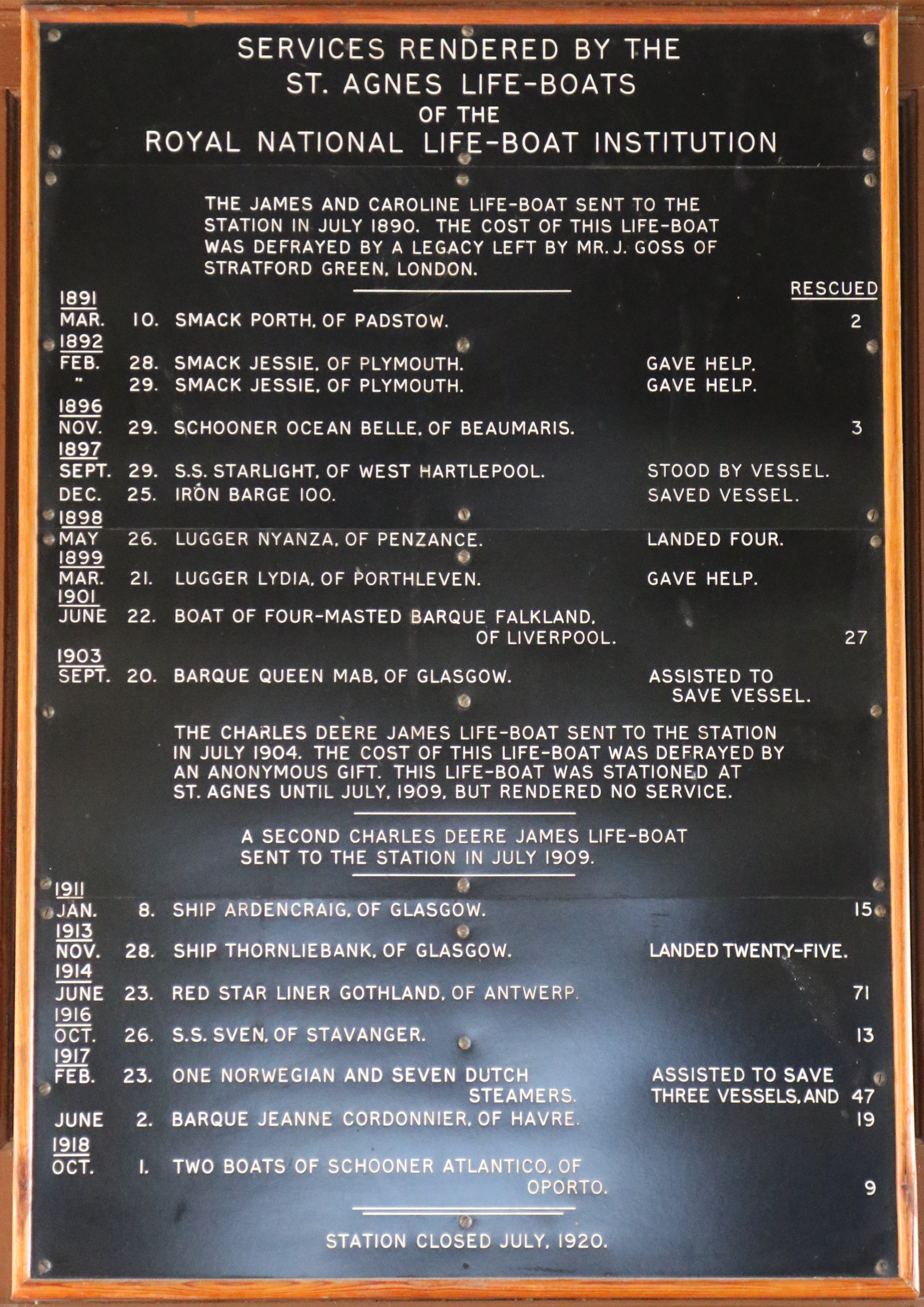 On the wall of St Agnes' Church.